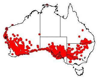 Exocarpos aphyllus Occurrence data from Australasian Virtual Herbarium downloaded 2019-08-24 using